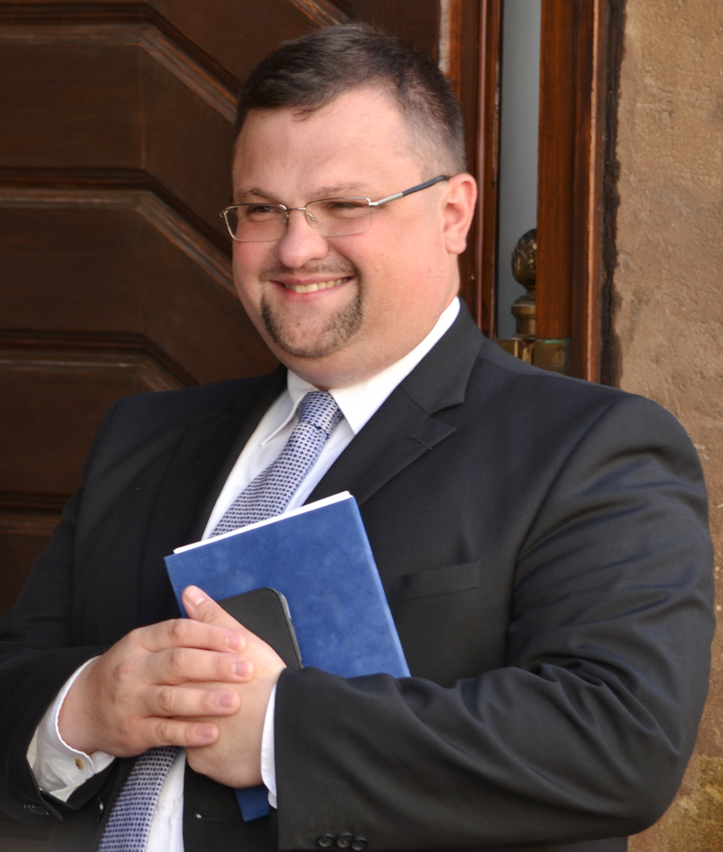 Jindřich Forejt, Director of the Protocol Dept. of the Office of the President of the Czech Republic